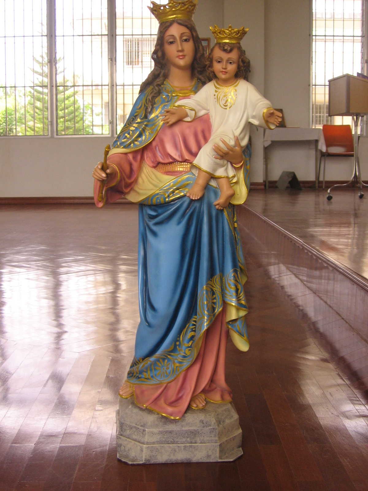 Statue of Mary Help of Christians in the Saint Francis de Sales Chapel, Don Bosco Technical School, Sihanoukville, Cambodia.